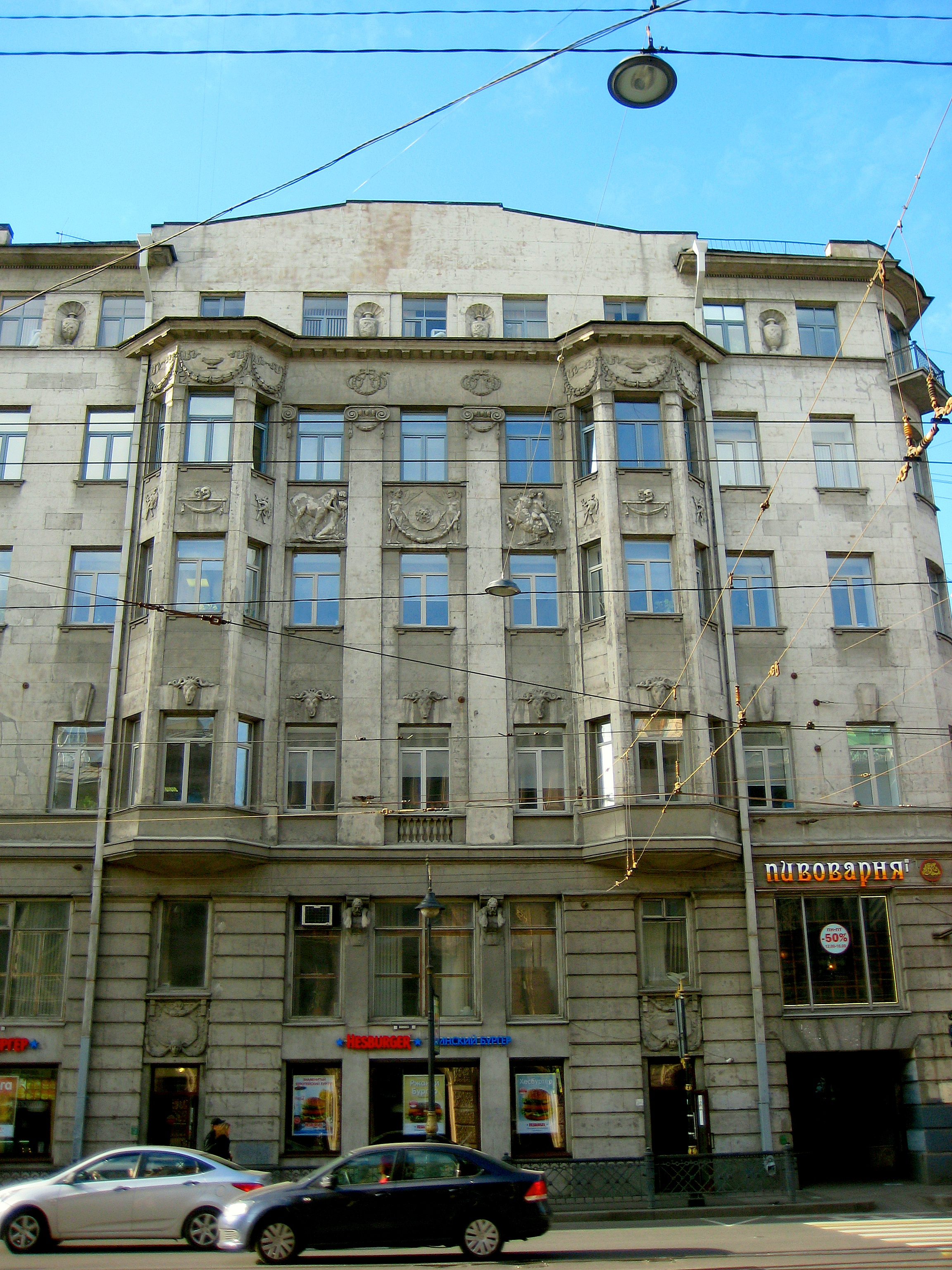 Profitable house Sh.Z. Ioffe (architect A.L. Lishnevsky), 1911-1913: Belinskogo street, 13 / Liteiny prospect, 47. Tsentralny district, St. Petersburg